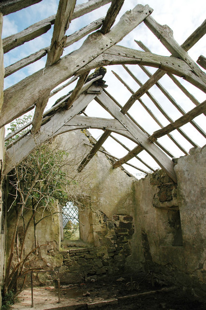 Eglwys Santes Fair (St. Mary's Church) Now ruined, this church nevertheless retains a wealth of historical information, including 19th century memorials upon the walls, and largely intact tilework to the floor and altar areas.